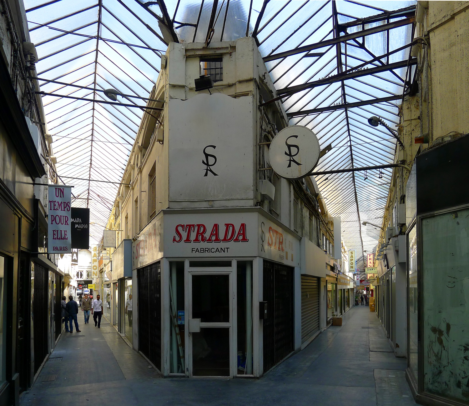 Passage du Caire - Paris